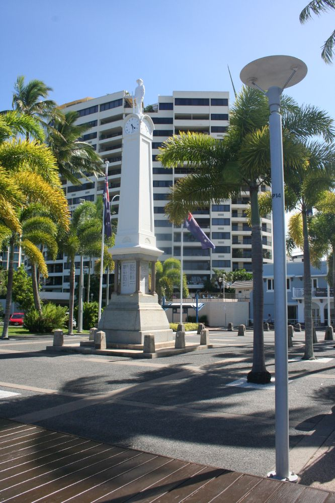 Cairns War Memorial, 2013